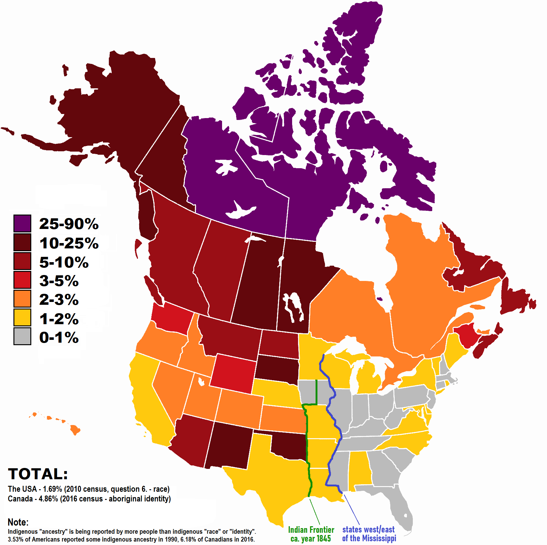 Indigenous peoples of the Americas in the USA (2010 census) and Canada (2016 census). Native American, Alaska Native, First Nations, Métis and Inuit, including native alone and in combination with other races. Legend: 25-90% 10-25% 5-10% 3-5% 2-3% 1-2% 0-1%